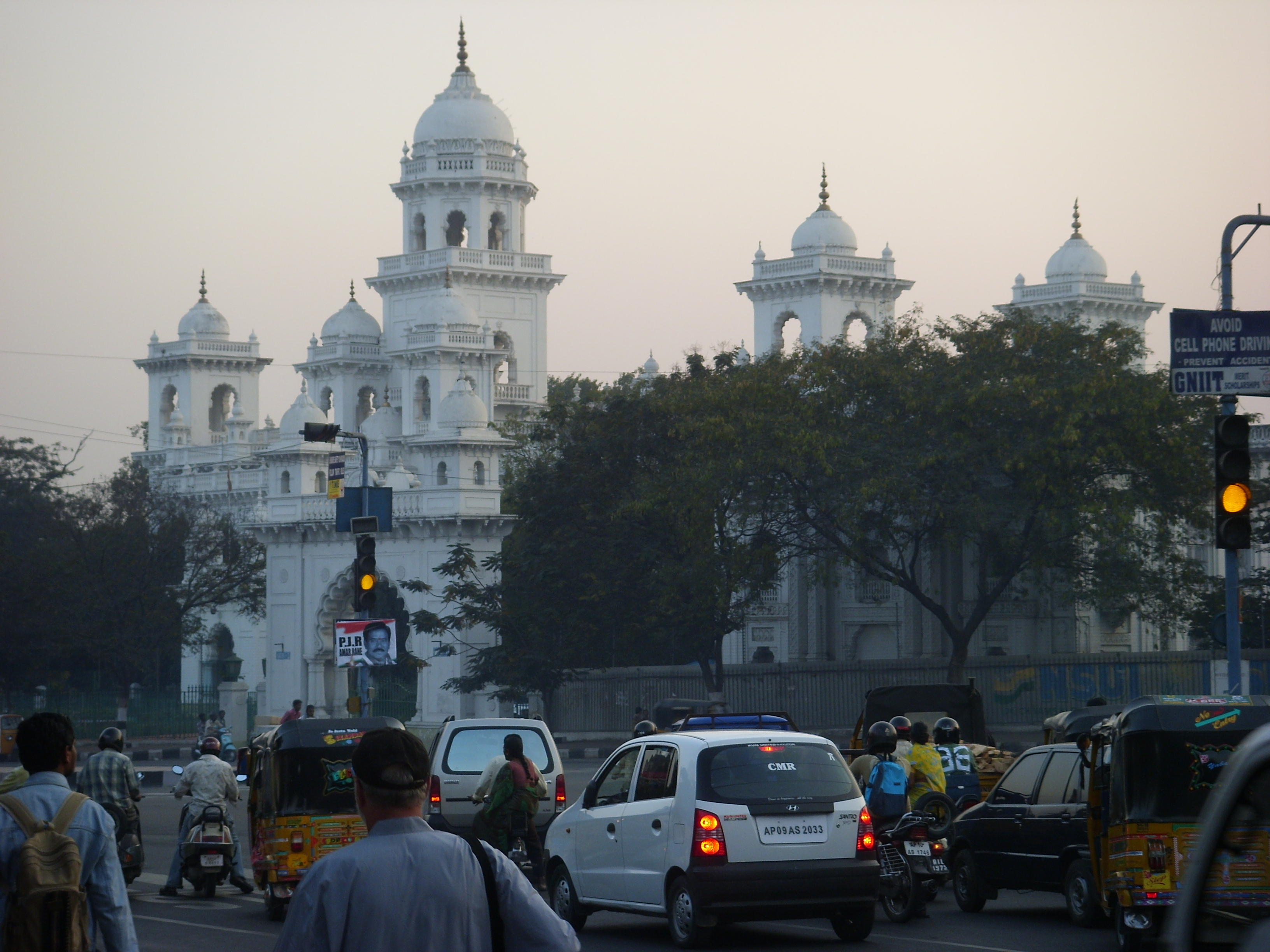 Legistative Assembly in Hyderabad.